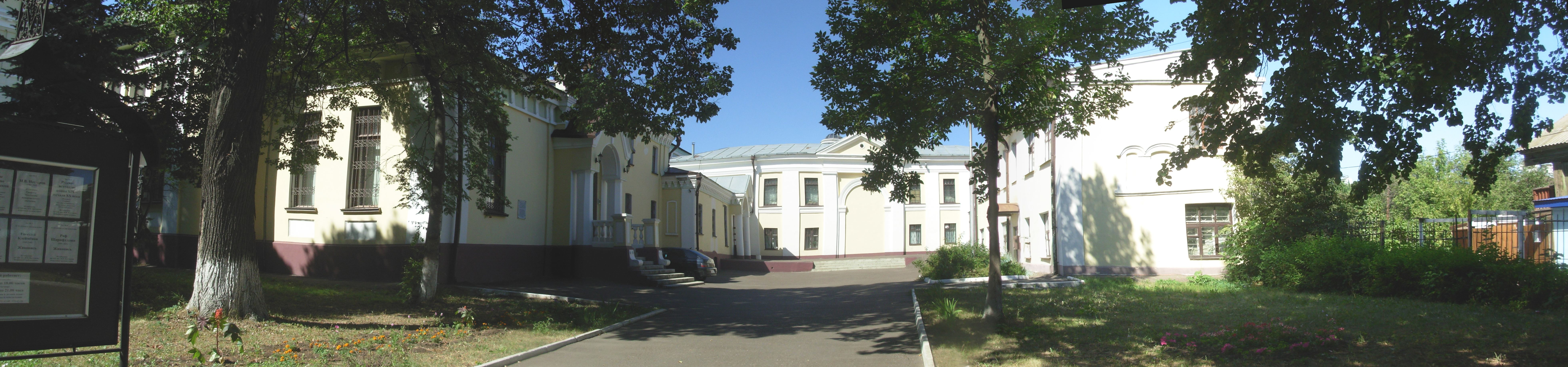 muzeum